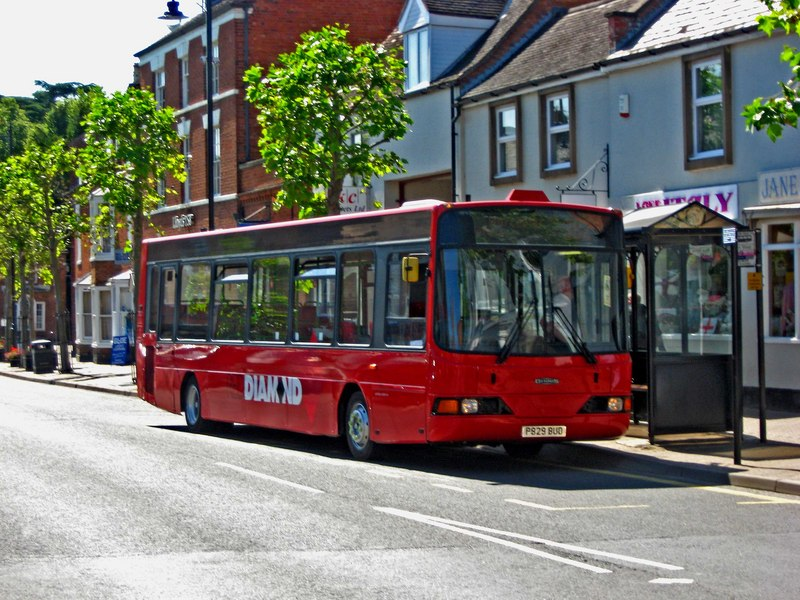 Red Diamond bus 406 in Broad Street, Data from Geograph: Description: Diamond Bus Company runs a service between Pershore and Worcester. Here a Dennis Dart, with Wright bodywork, is waiting at the bus stop and shelter in Broad Street. It is numbered 406 in the Red Diamond fleet, with registration P829BUD. ICBM: 52.109693121611, -2.0750077121258 Location: (about 1 km from) near to Pershore, Worcestershire, Great Britain.